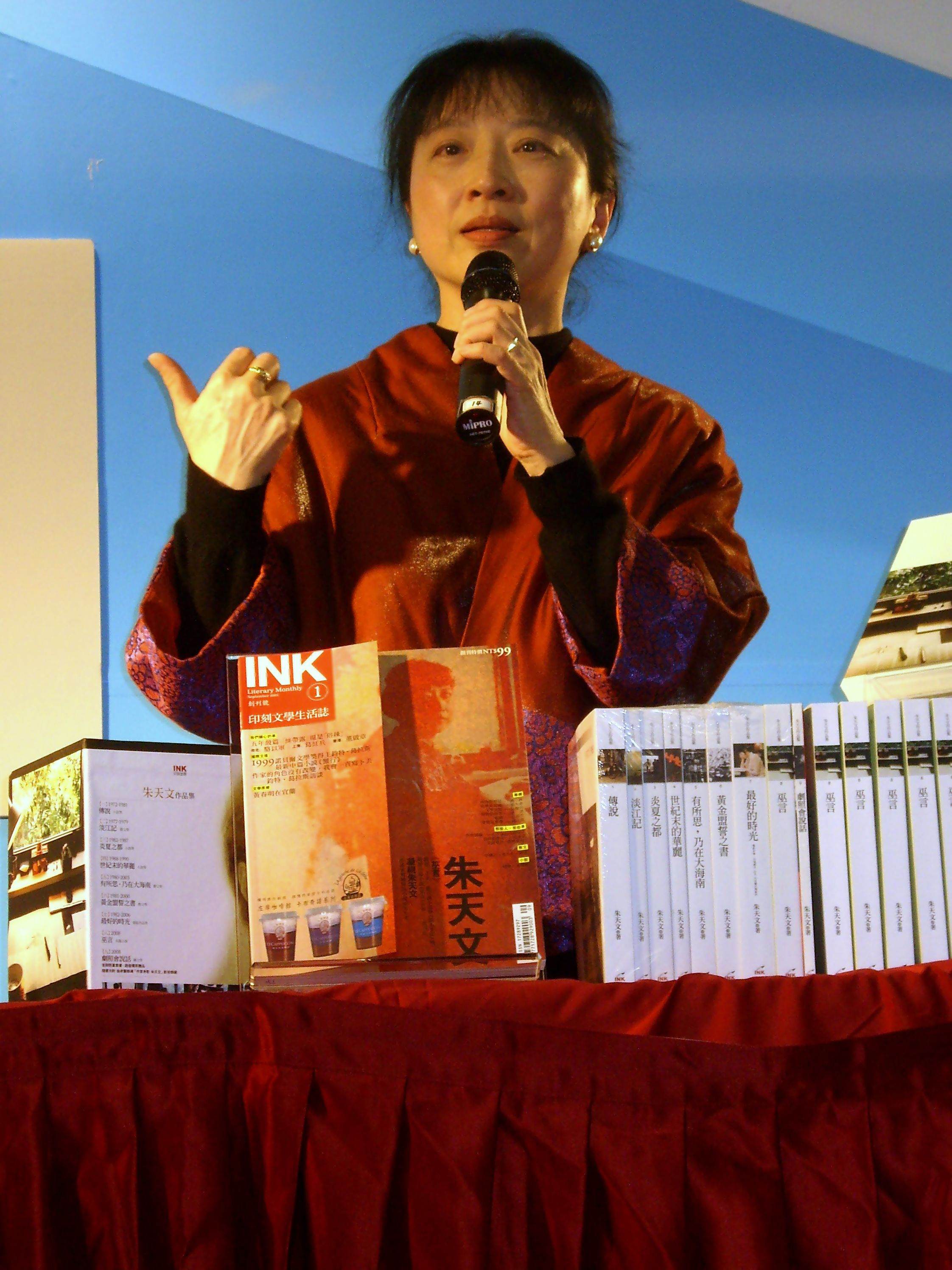 2008 Taipei International Book Exhibition - Activity Center 1: Tien-wen Chu, an author from Taiwan.